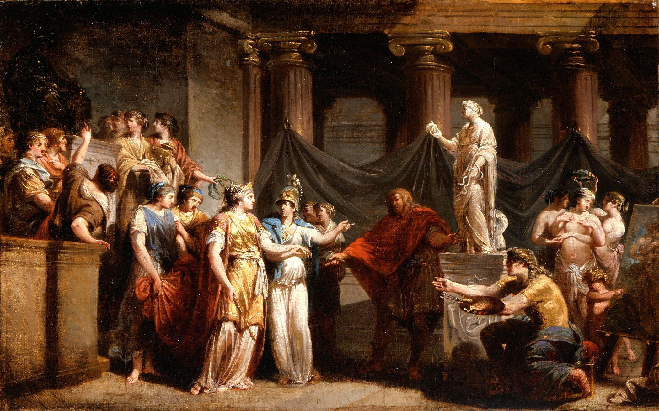 Switzerland, 1779 Paintings Oil on canvas 13 1/4 x 21 in. (33.66 x 53.34 cm) The Ciechanowiecki Collection, Gift of The Ahmanson Foundation (M.2000.179.28) European Painting Currently on public view: Ahmanson Building, floor 3